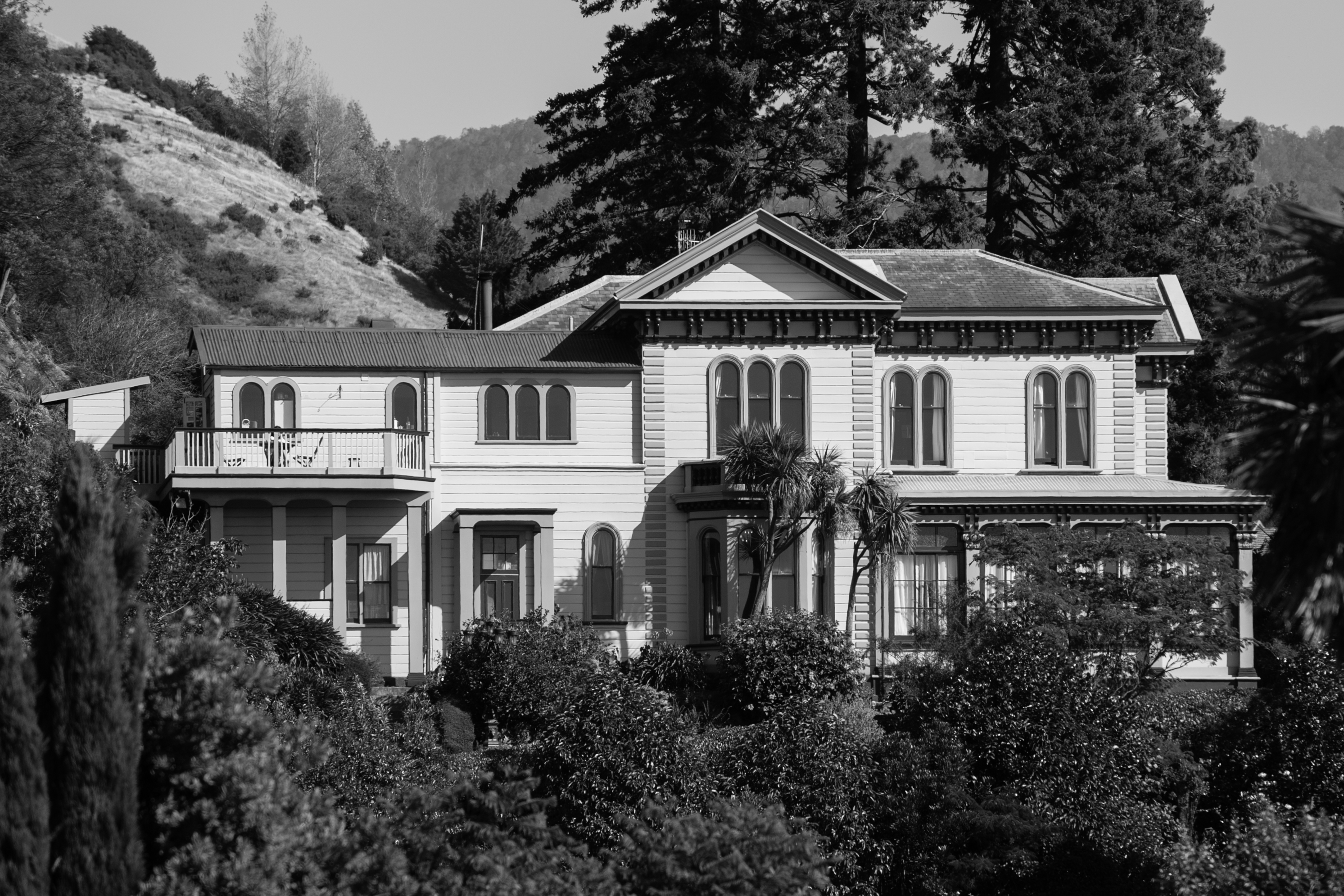 Fellworth House, Nelson: home of Cawthron Institute for 50 years